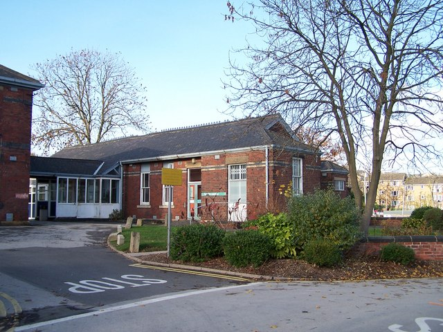 Clinical Psychology Ward, Northern General Hospital, Sheffield. This is one of two wards from the original Fever Isolation Hospital ... presumably one was for Men and the other for Women ... back in 1881 they knew what isolation really meant. No mixed wards back then! 1069258